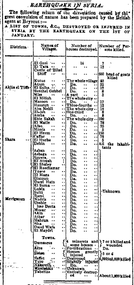 Galilee Earthquake, The Times, Wednesday, Apr 12, 1837